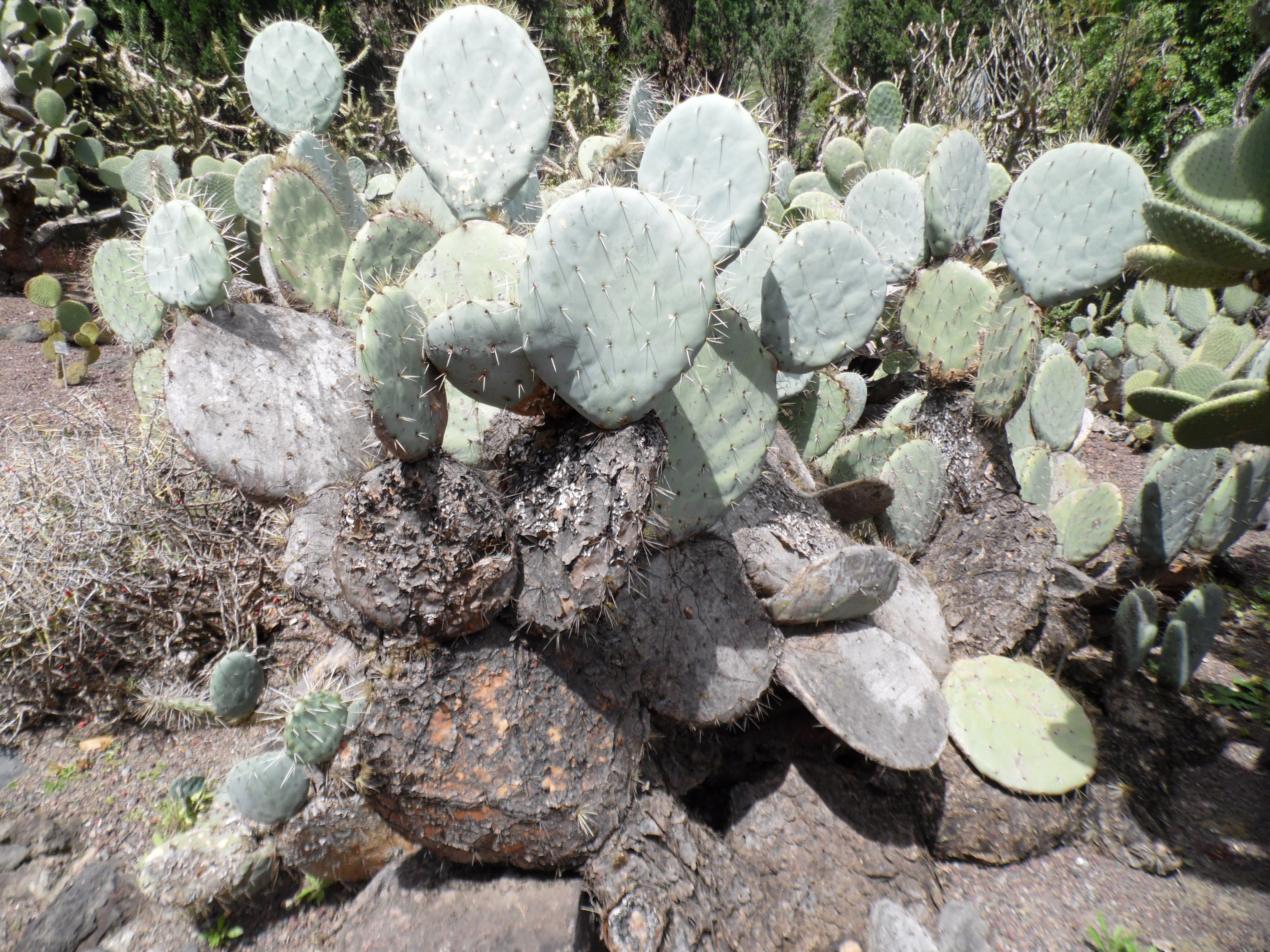 Opuntia robusta in Jardín Botánico Canario Viera y Clavijo